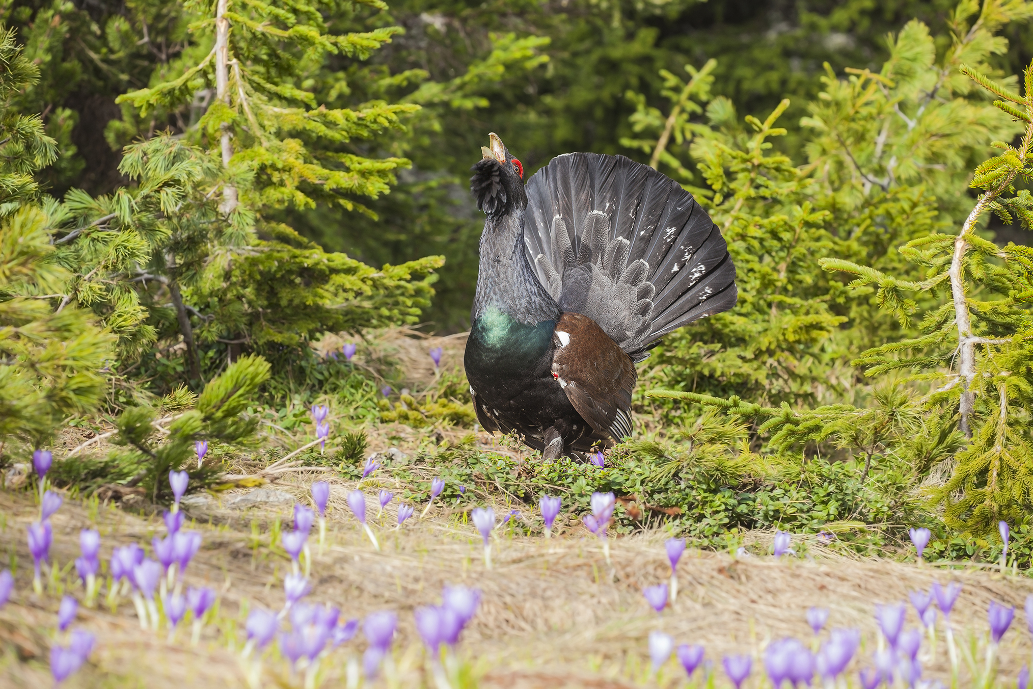 Male Capercaillie (Tetrao urogallus) in the National Park and Natura 2000 site of Rila